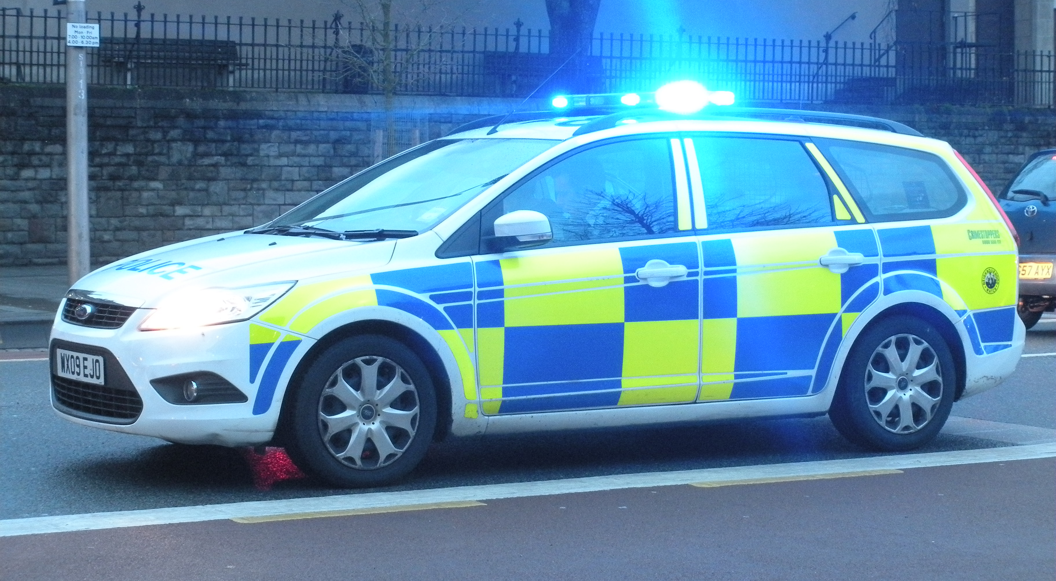 Image of an Avon and Somerset Constabulary police car, taken in Bristol, England on 21 December 2012. This police car belonged to officers directing traffic as I passed by.